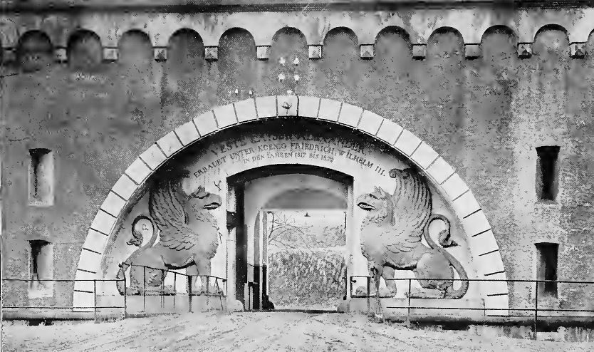 91st Aero Squadron - Gate at Coblenz Airfield, January 1919